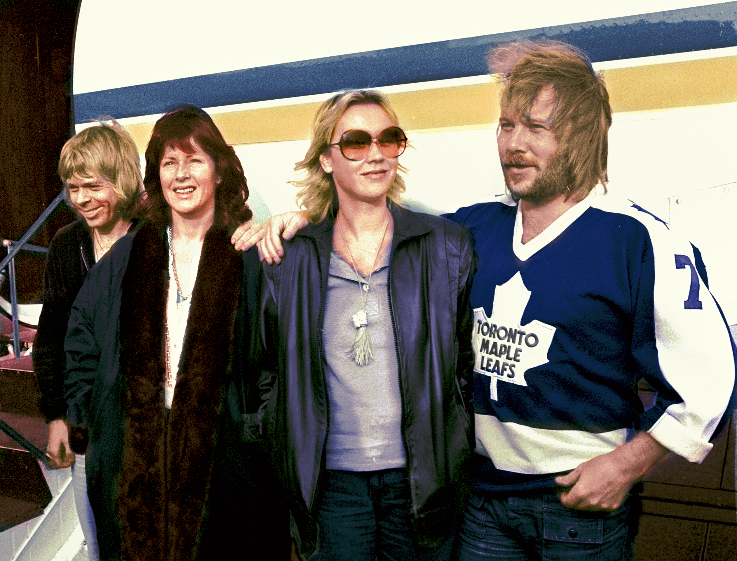 Colourised version of ABBA at Rotterdam, 1979.